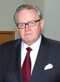 Martti Ahtisaari, a former President of Finland, during the 4th of July Celebration at the Finlandia hall in Helsinki, Finland.